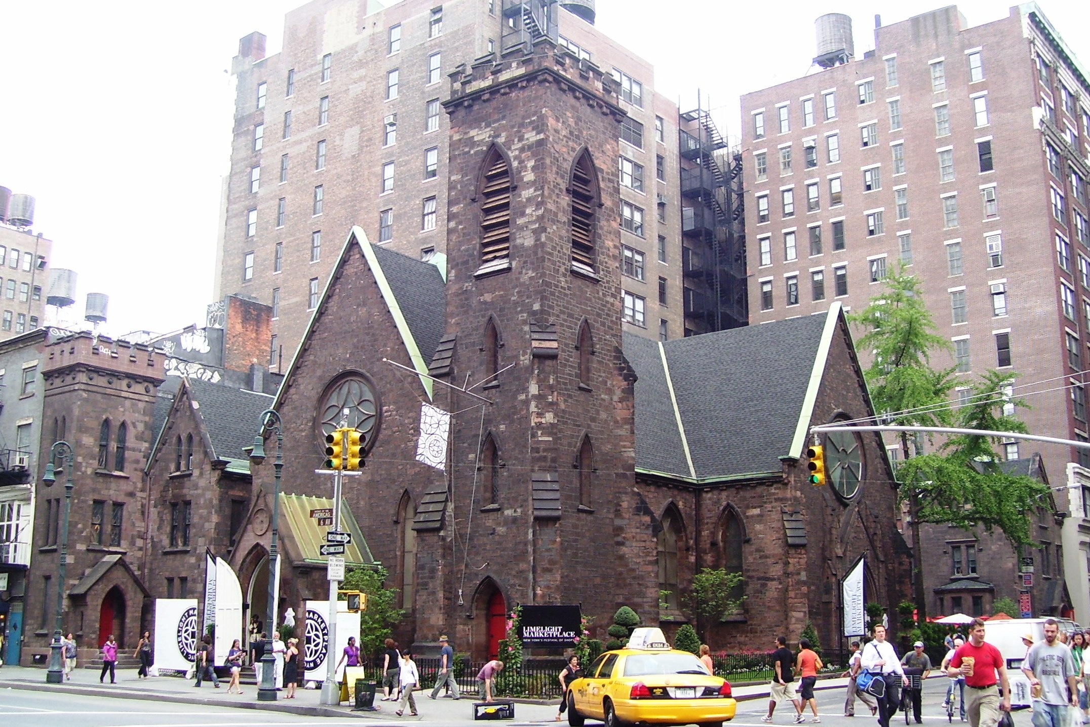 The Limelight on the Avenue of the Americas (Sixth Avenue) at West 20th Street in the Flatiron District, Manhattan, New York City, was built in 1844-1845, designed by Richard Upjohn, as the Episcopal Church of the Holy Communion, at a time when Sixth Avenue was still the location of fashionable homes. The complex of church and outbuildings is noted for its asymmetrical design, and for the random placement of the brownstone blocks. The building was bought by Odyssey House, a drug-rehab organization, in 1975, which then sold it in 1982 to Peter Gatien, who turned it into the Limelight disco. In 2010, after laying semi-dormant for some years, it was converted into the Limelight Marketplace of small up-scale shops.